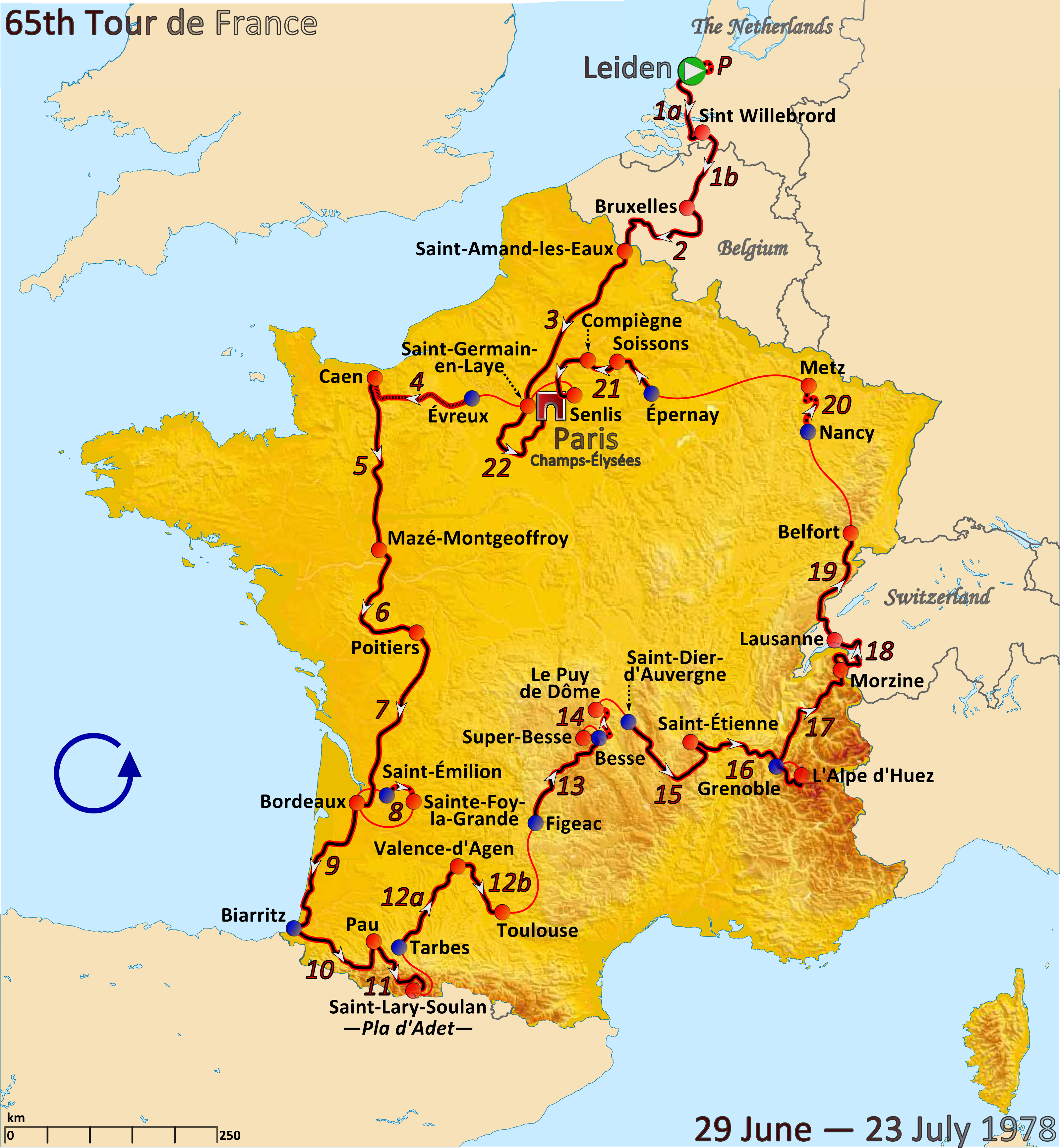 Map of the 1978 Tour de France created in Inkscape using accurate stage maps obtained from touratlas.nl.